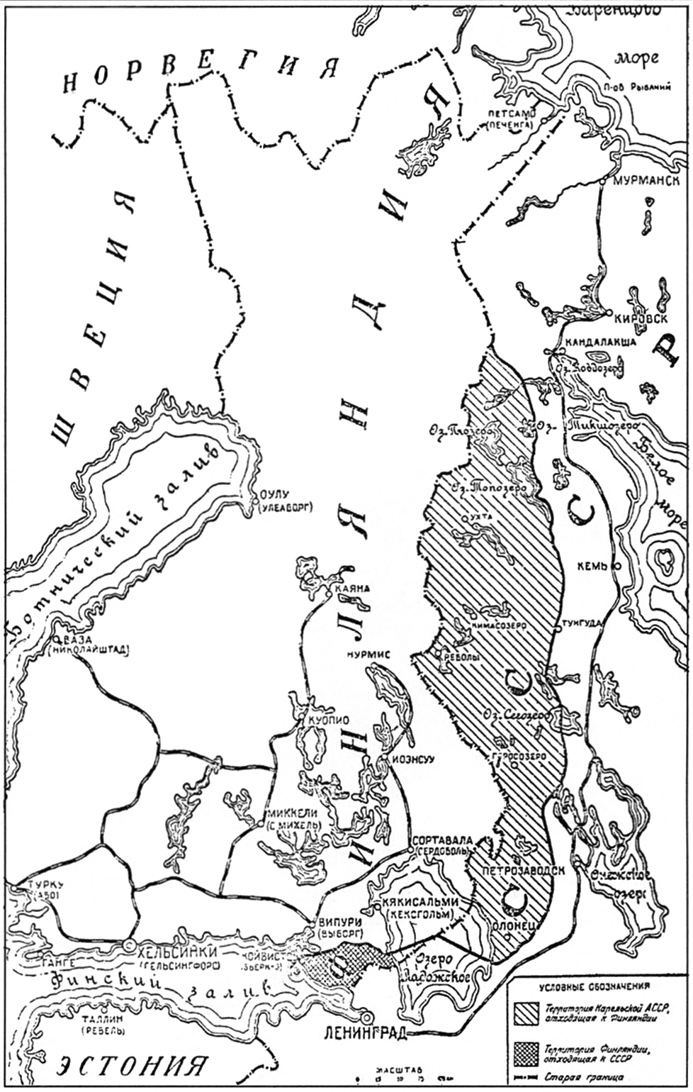 Map with a new line of the state border between the USSR and Finland, annexed to the Treaty on Friendship and Mutual Assistance between the Soviet Union and the Finnish Democratic Republic, on December 2, 1939.